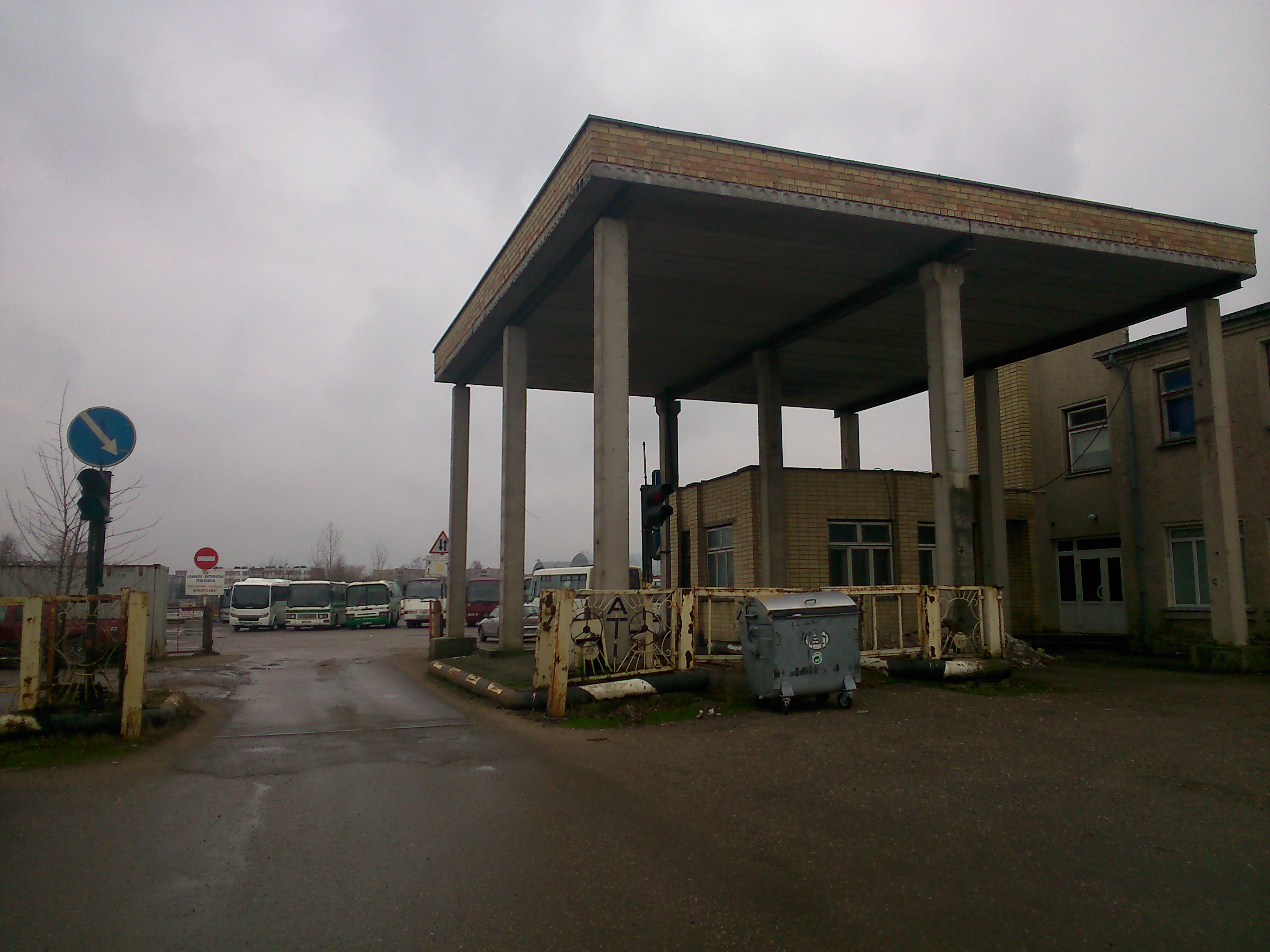 ATĮ parkas